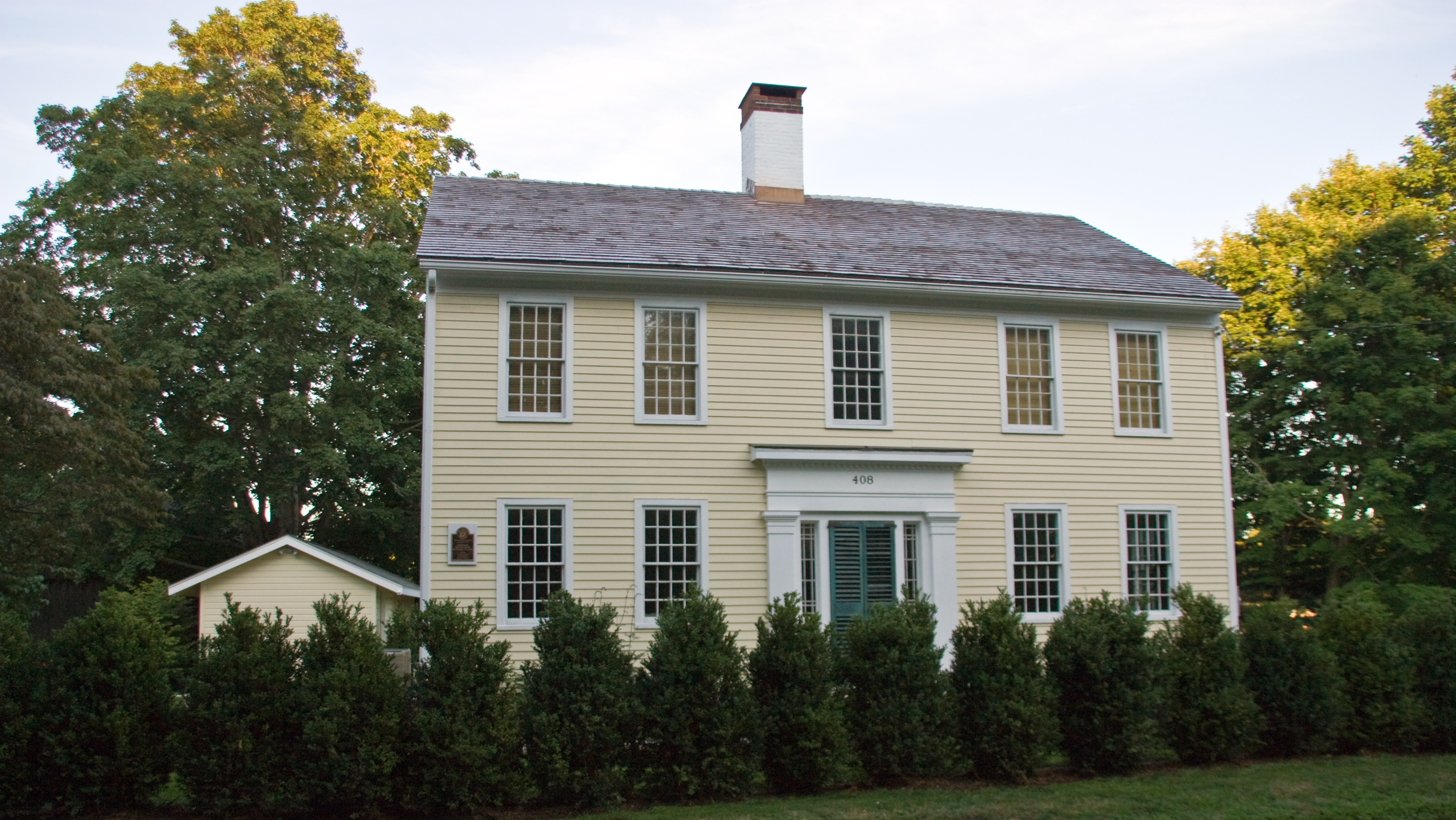 Hezekiah Palmer House, 408 Leetes Island Rd, Branford, CT - on National Register of Historic Places